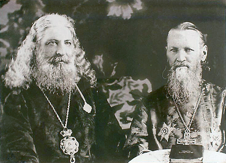 Епископ Михей (Алексеев) и протоиерей Иоанн Кронштадский